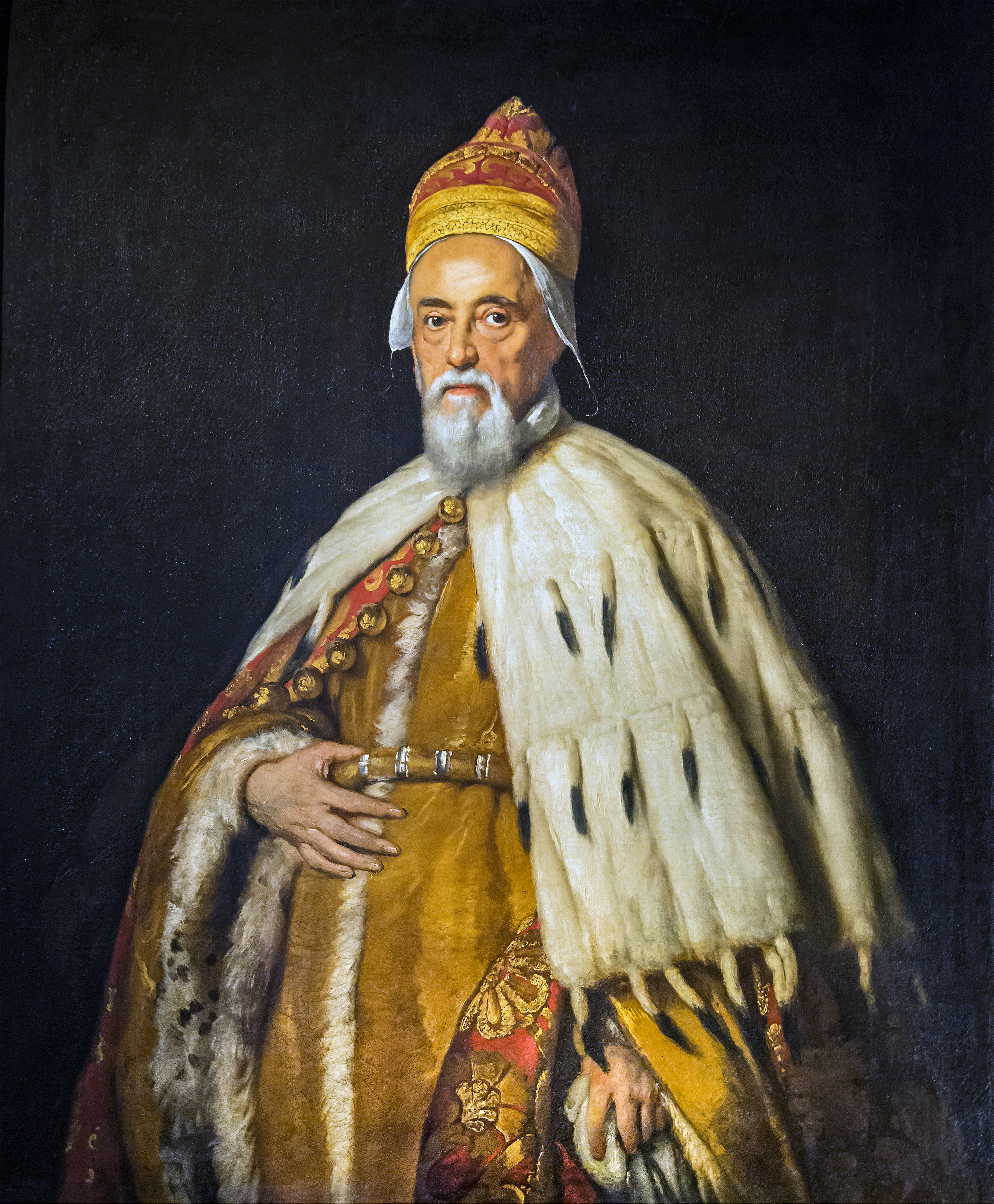 Portrait of doge Francesco Erizzo by Bernardo Strozzi (1635), Gallerie dell'Accademia in Venice. Oil on canvas. Acquisition Ernesto Azzolini 1920 Inventory number: Cat.829